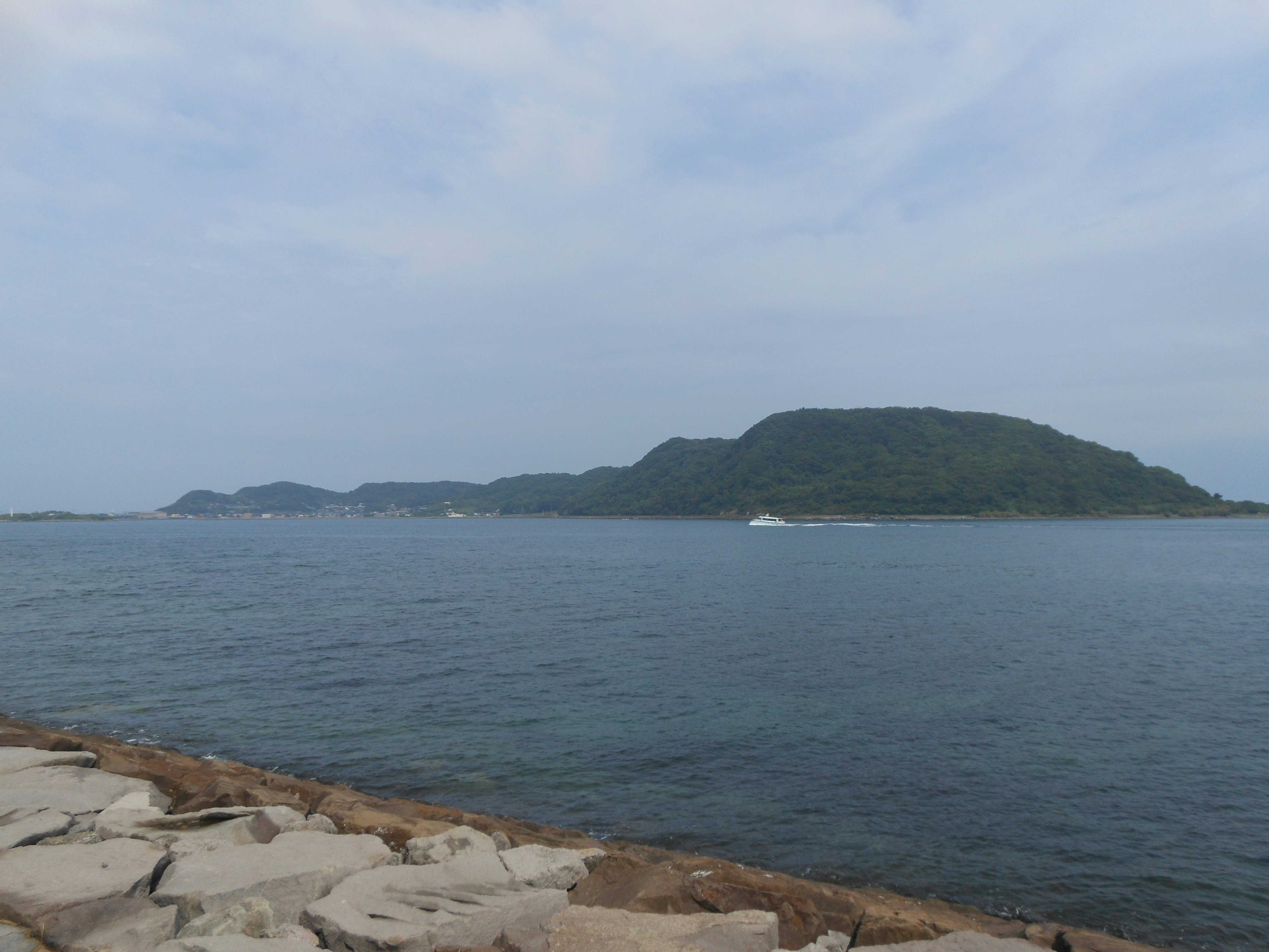 Kashiwajima Island, and a regular liner "Kōjinmaru" on Minato Port to there, from Cape Mesenohana, Minato, Karatsu city.